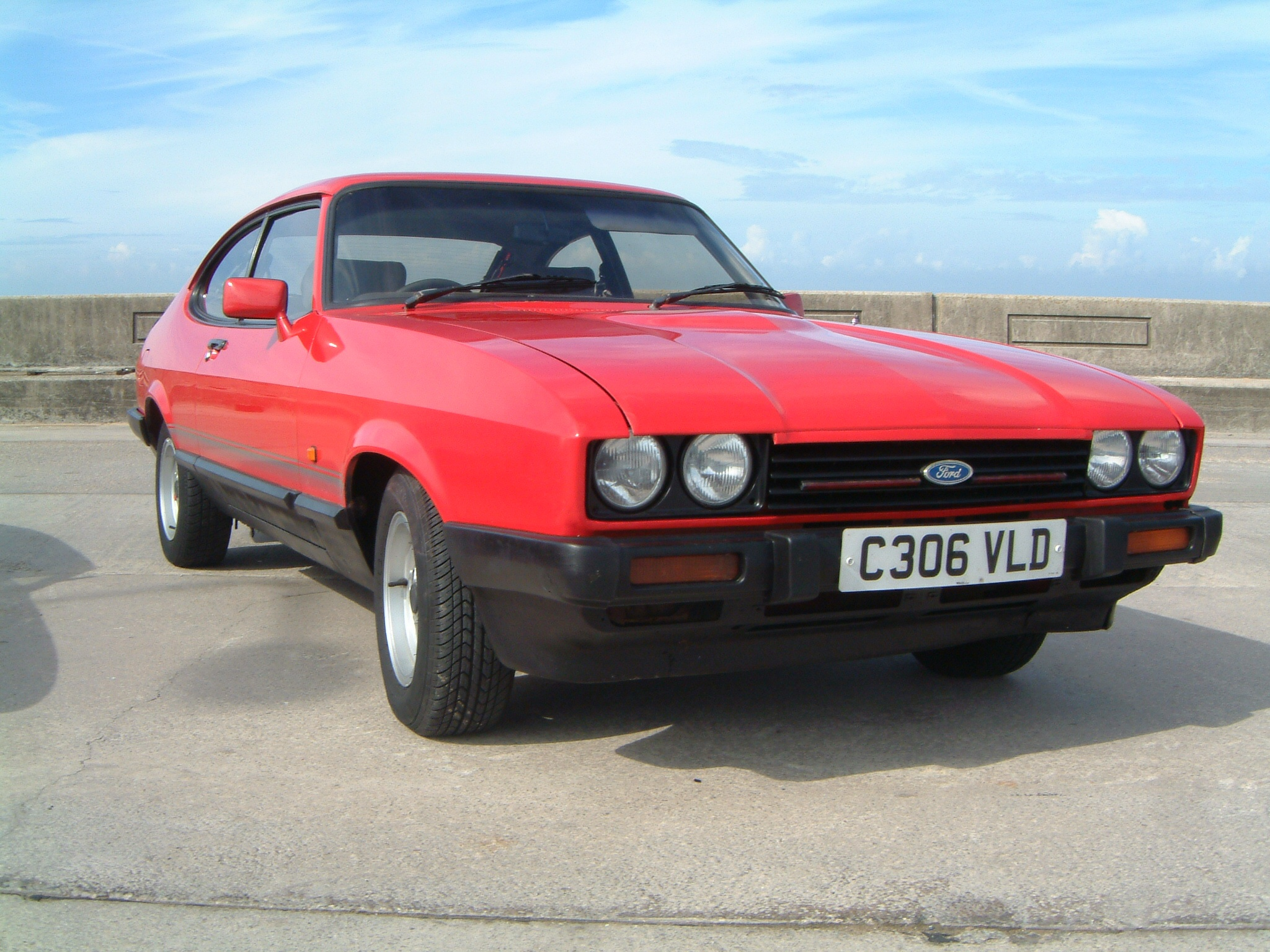 Ford Capri 1.6 Laser at Blackpool, United Kingdom. The vehicle was first registered on 16 February 1986